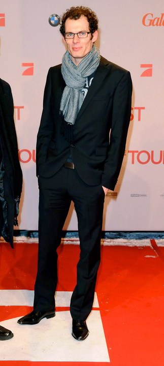 Johannes Thielmann at the movie premiere of "The Tourist"